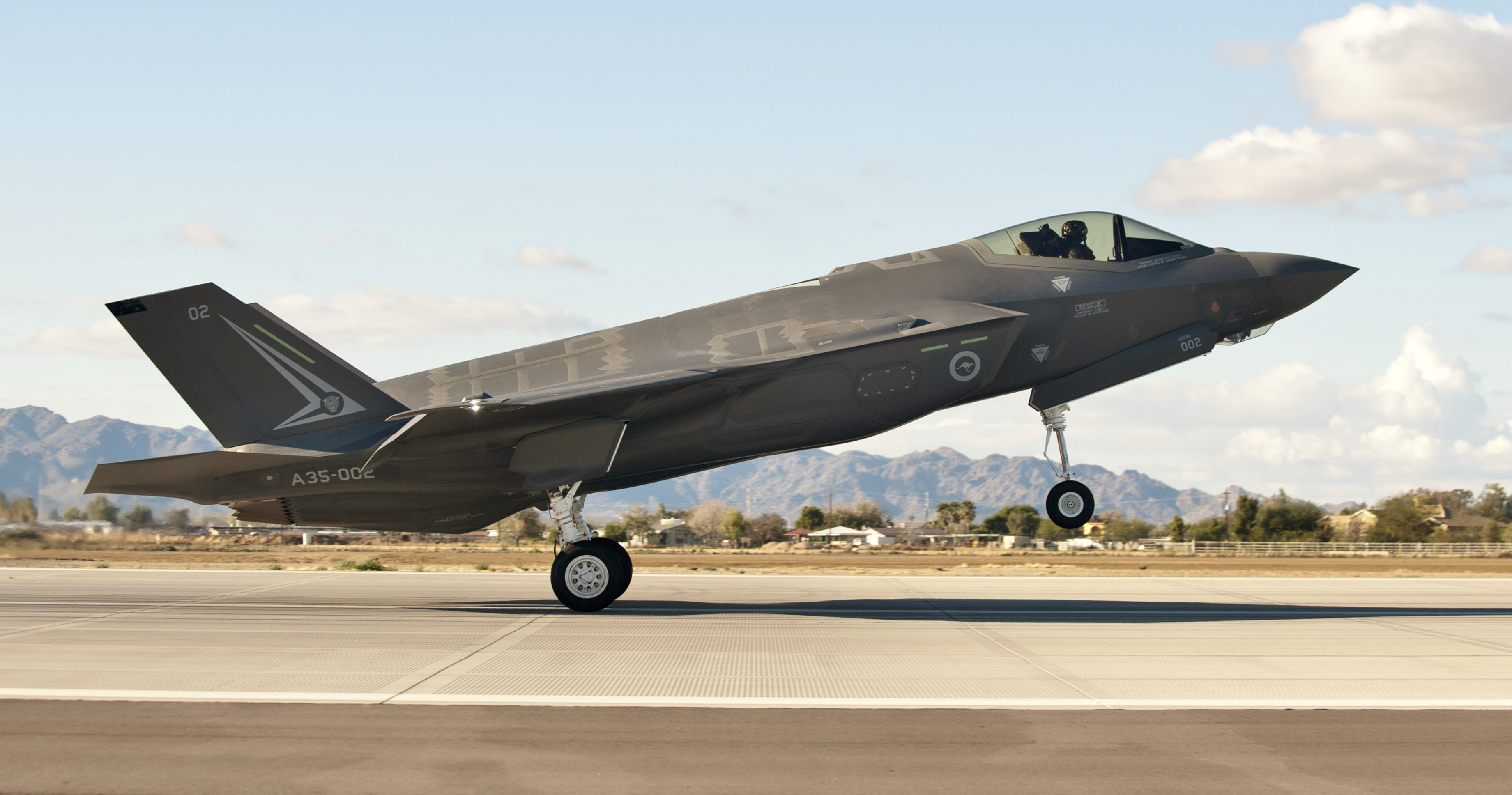 The first Royal Australian Air Force F-35A Lightning II jet arrived at Luke Air Force Base Dec. 18, 2014. The jet’s arrival marks the first international partner F-35 to arrive for training at Luke.